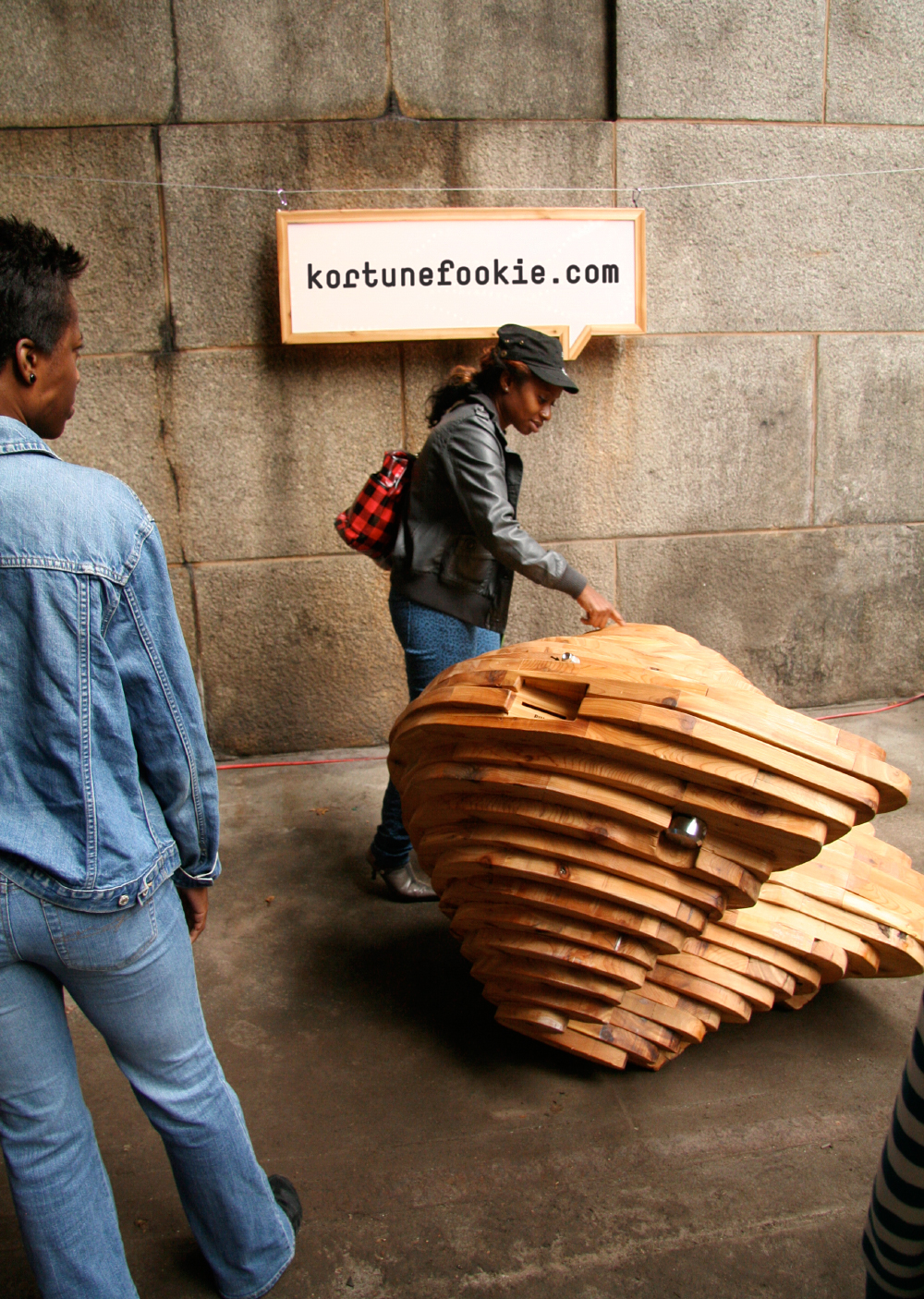 Interactive public art project Kortunefookie, shown at Art Under The Bridge, DUMBO, New York, september 2008